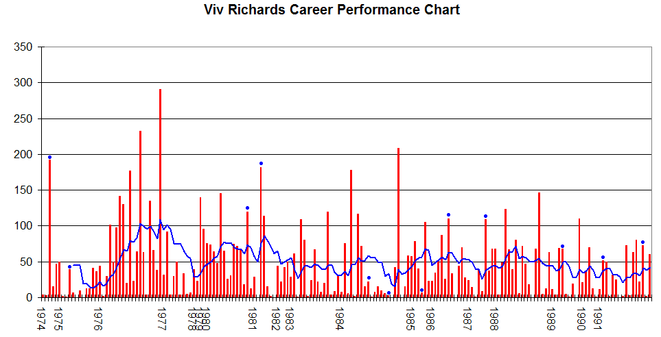 This graph details the Test Match performance of Viv Richards. It was created by Raven4x4x. The red bars indicate the player's test match innings, while the blue line shows the average of the ten most recent innings at that point. Note that this average cannot be calculated for the first nine innings. The blue dots indicate innings in which Richards finished not-out. This graph was generated with Microsoft Excel 2002, using data from Cricinfo and .au. huh?